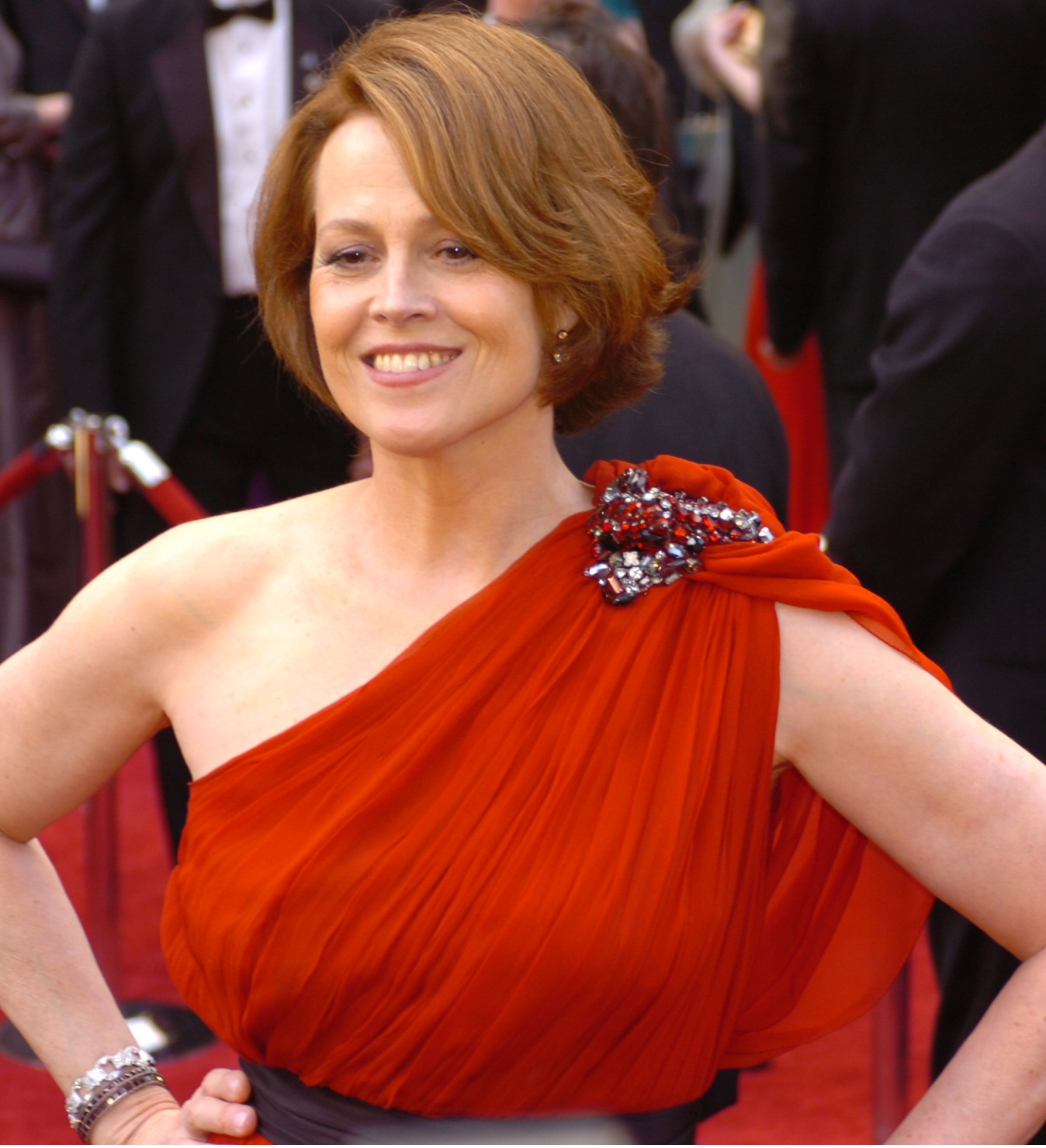 Actress Sigourney Weaver poses for photos on the red carpet at the 82nd Academy Awards, March 7, 2010 in Hollywood, Calif. Avatar, which she had a major role in, had received several nominations.